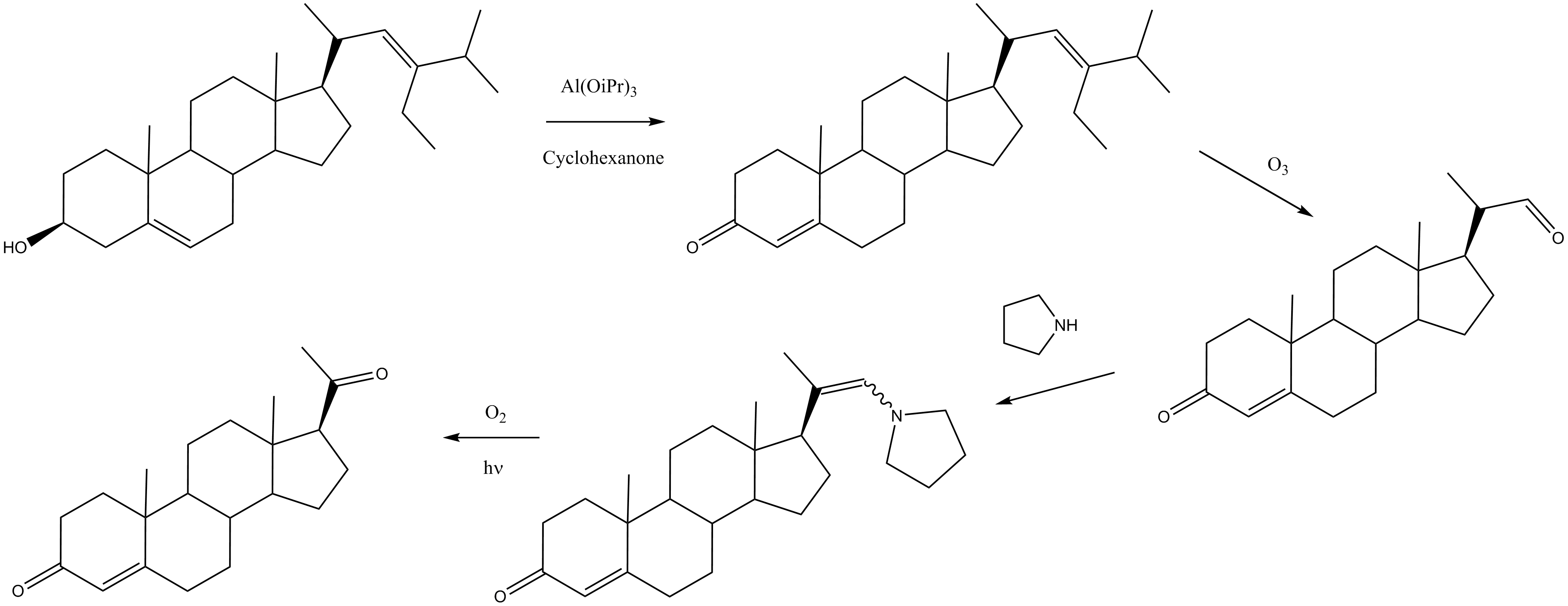 Secondary source is Lednicer Strategies book or his book on steroids. J. Am. Chem. Soc., 1950, 72 (6), pp 2617–2619 J. Am. Chem. Soc., 1958, 80 (4), pp 915–921 See also 3rd citation not included by Lednicer: J. Org. Chem., 1977, 42 (22), pp 3633–3634